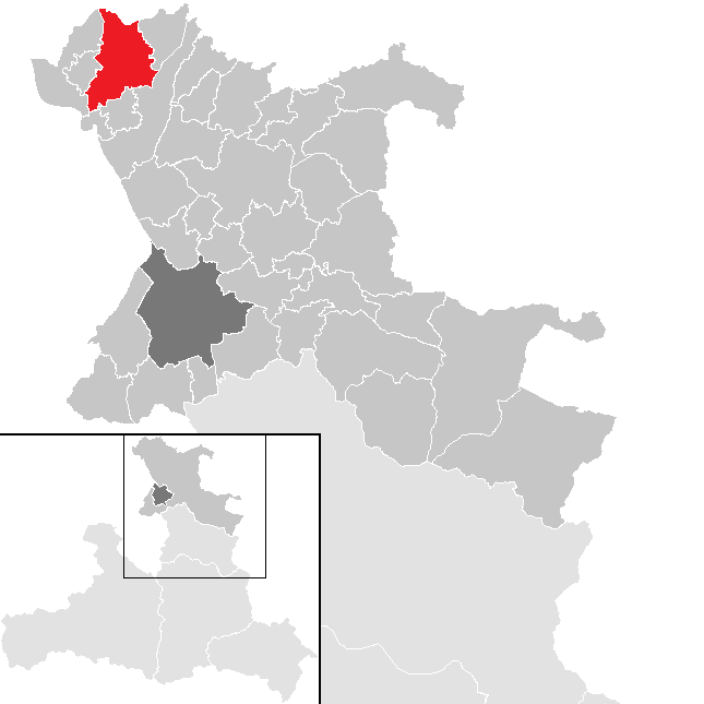 District Salzburg-Umgebung